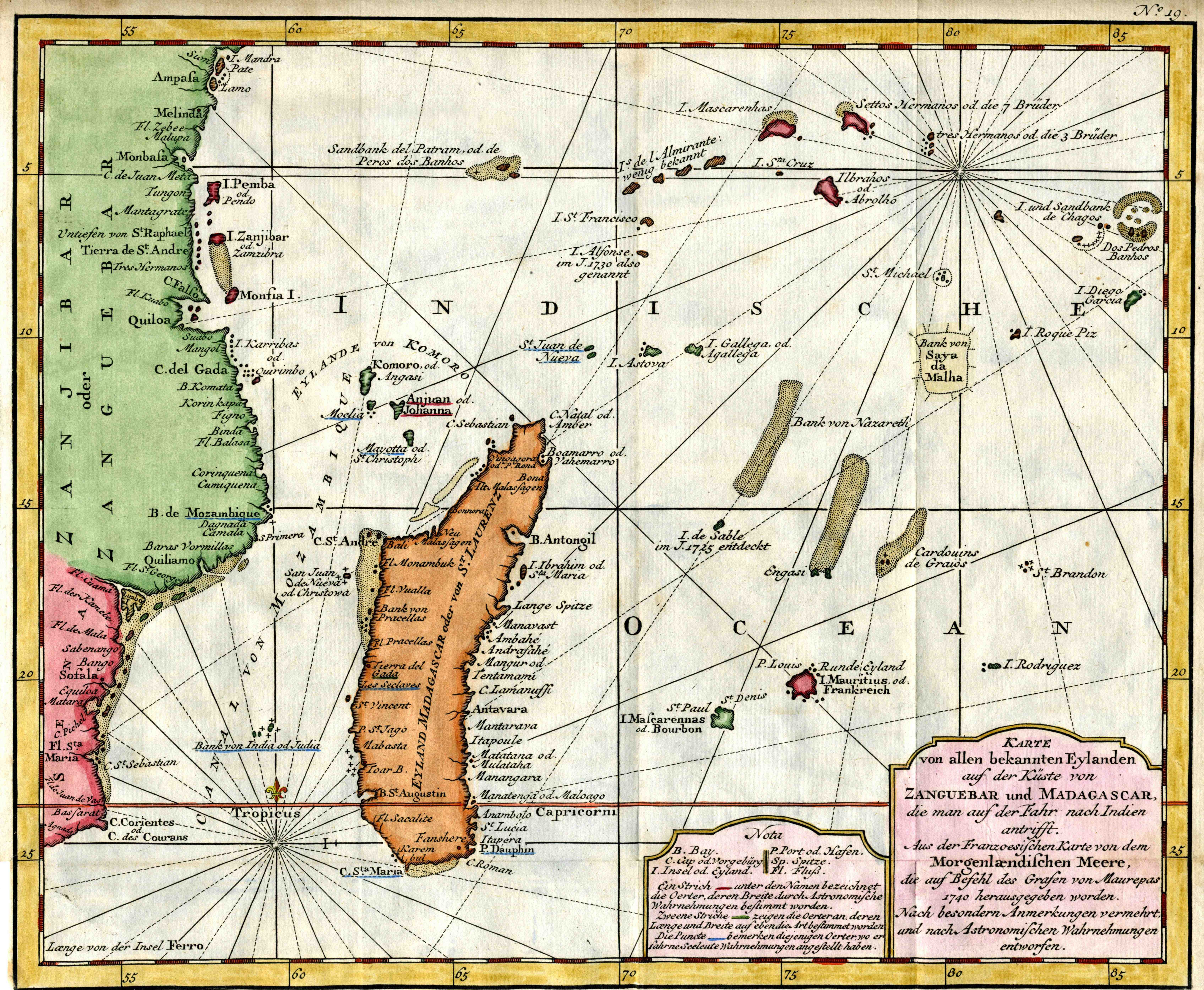 Map engraved by Bellin after earlier voyages. Published in the German edition by Schwabe in Leipzig of Bellin's travel books.